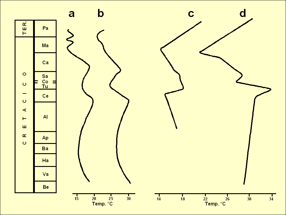 Cretaceous temperature curves derived from oxygen (delta O-18) isotopic ratio. a) benthic foraminifera; b) planktic foraminifera; c) phosphatic fish remains; d) high-latitude carbonates. data from: a)Douglas R.G. & Woodruff F. (1981). Deep sea benthic foraminifera, In The Sea, Vol. 7, C.Emiliani, ed., Wiley-Interscience, New York. b) Douglas R.G. & Savin S.M. (1978). Oxygen isotopic evidence for the depth stratification of Tertiary and Cretaceous planktic foraminifera, Mar. Micropaleontol. 3, 175–196. c-d) Kolodny Y. & Raab M., 1988, Oxygen Isotopes in Phosphatic Fish Remains from Israel: Paleothermometry of Tropical Cretaceous and Tertiary Shelf Waters. Paleogeogr., Paleoclimatol. , Paleoecol. 64:59-67.